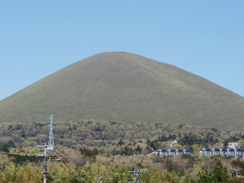 Mount Omuro (Omuro-yama) as seen from the SSW in Ito, Shizuoka Prefecture, Japan. Mount Omuro is a one of the volcano in Izu-tobu Volcano Group.